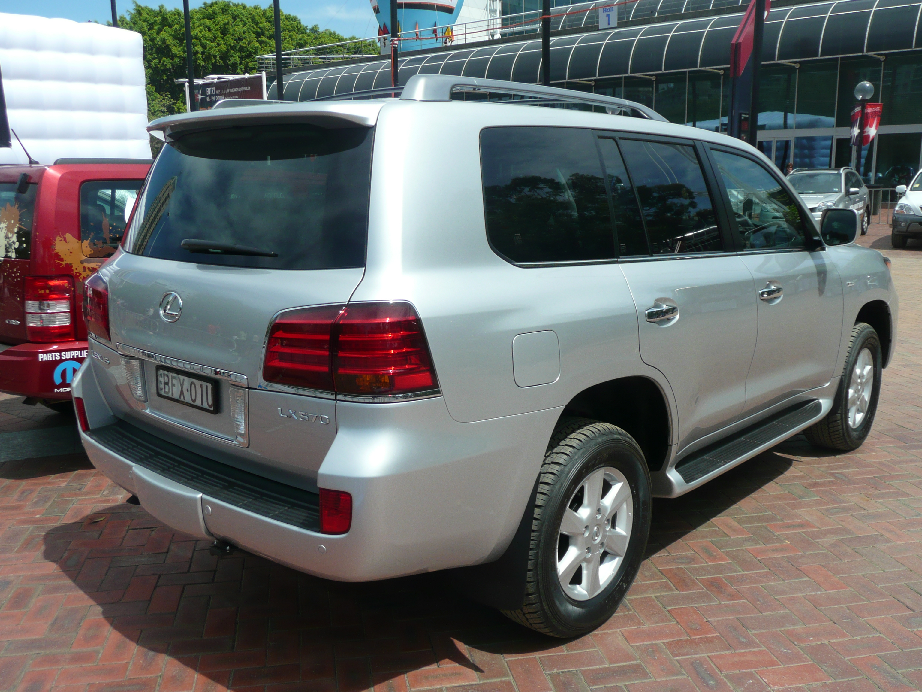 2008 Lexus LX 570 (URJ201R) Prestige wagon. Photographed at the 2008 Australian International Motor Show, Sydney, New South Wales, Australia.